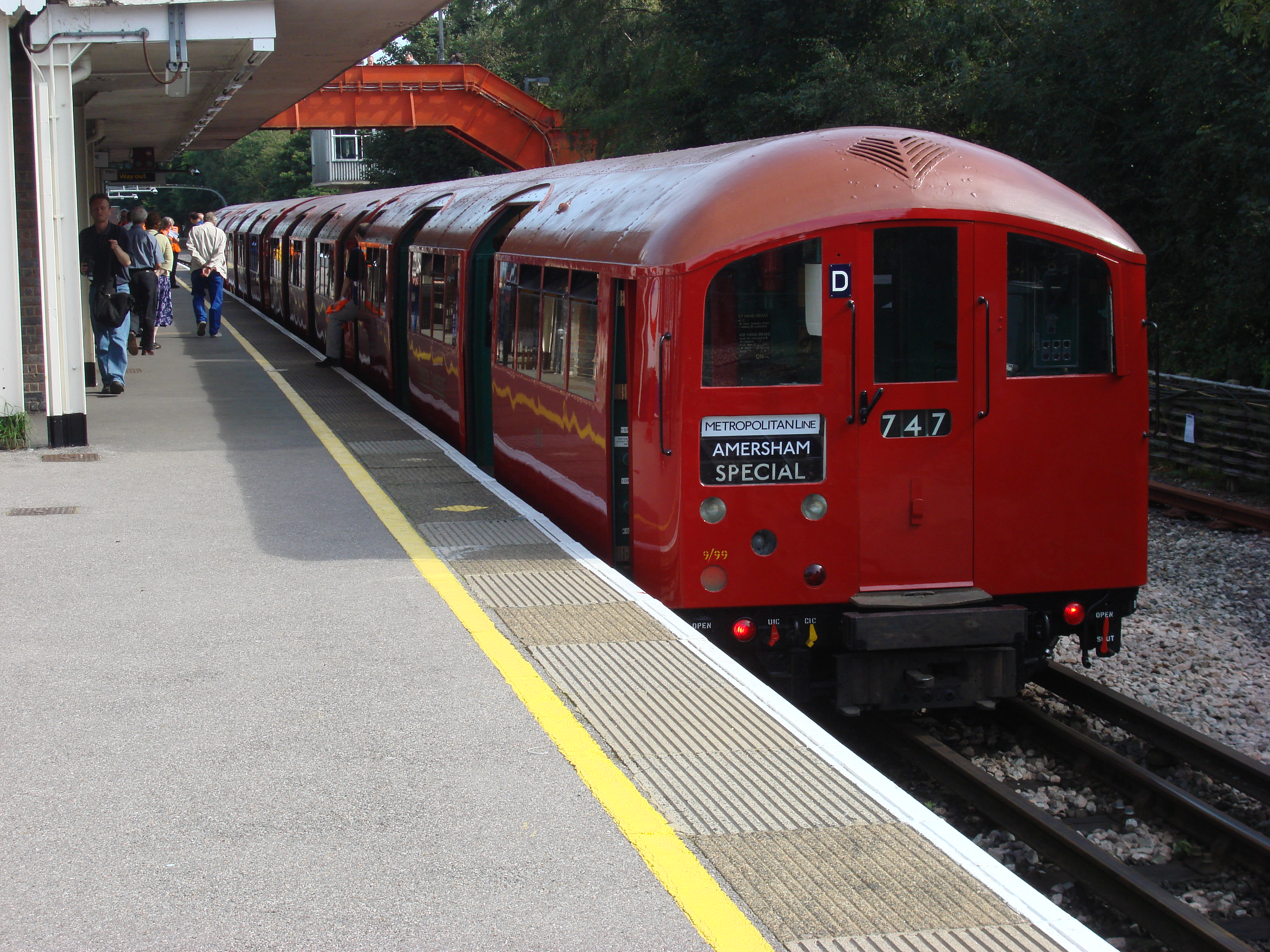 London Underground 1938 Stock Preserved in working order and seen here at Amersham station.